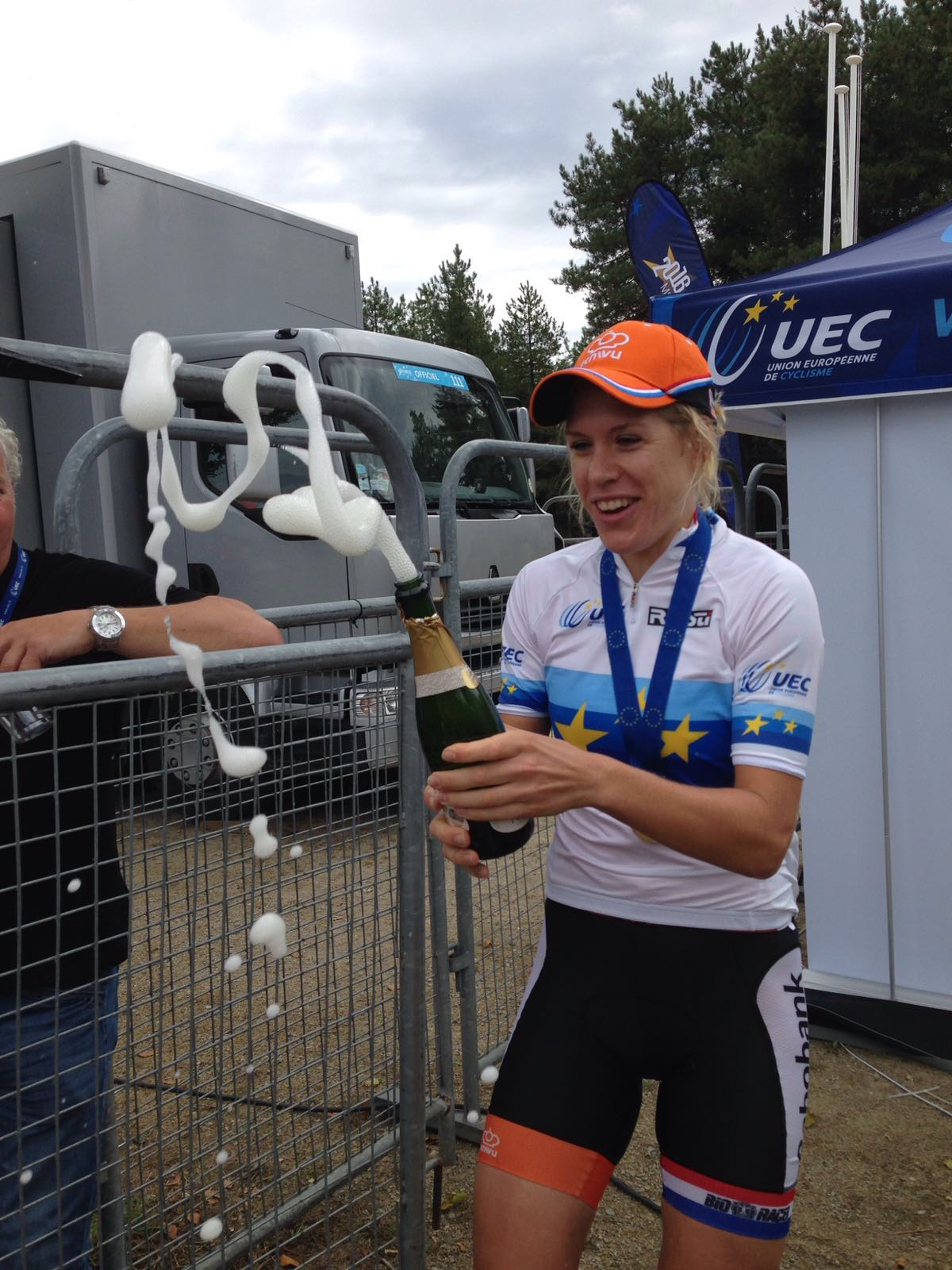 2016 Road World Championships